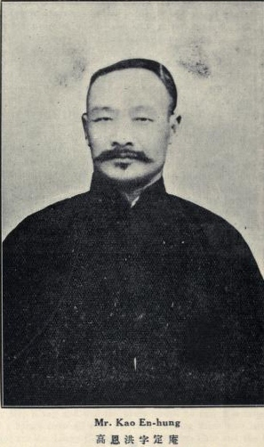 Gao Enhong, Ding'an (1875 - 1928)